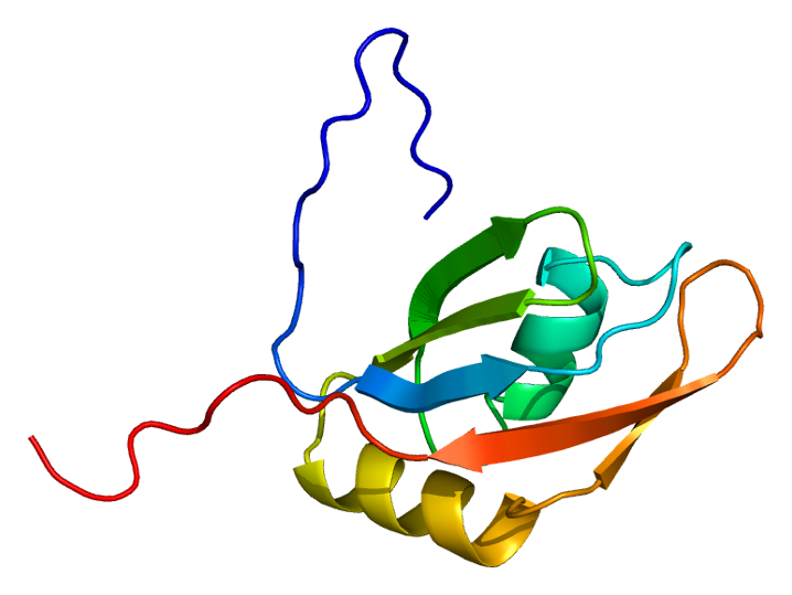 Structure of the SFRS9 protein. Based on PyMOL rendering of PDB 1wg4.